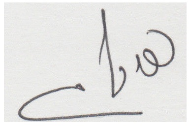 Tzipi Livni signature